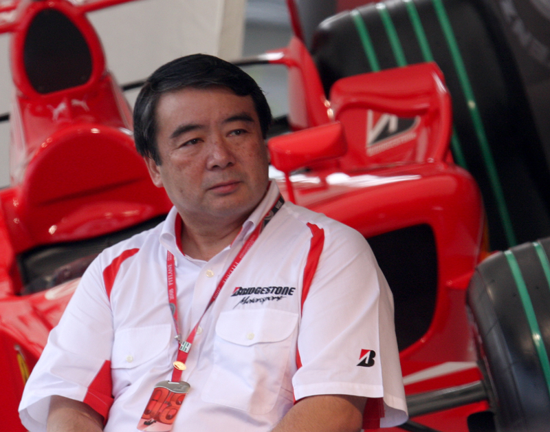 Formula One 2008 Rd.16 Japanese GP: Hirohide Hamashima, the director of the Bridgestone's Motorsport Tyre Development.